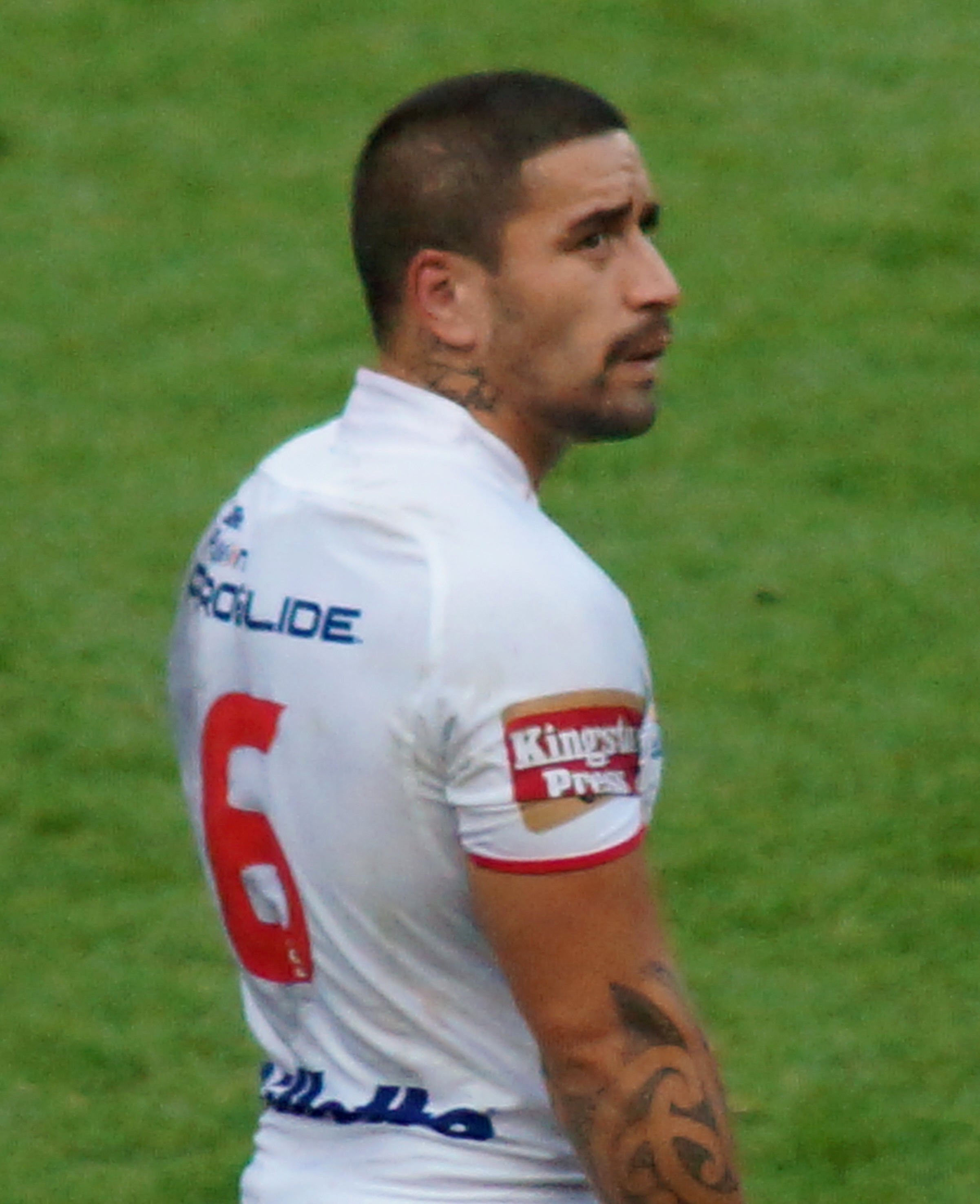 English Rangi Chase at 2013 Rugby League World Cup match between England and Ireland at John Smith's Stadium, Huddersfield.